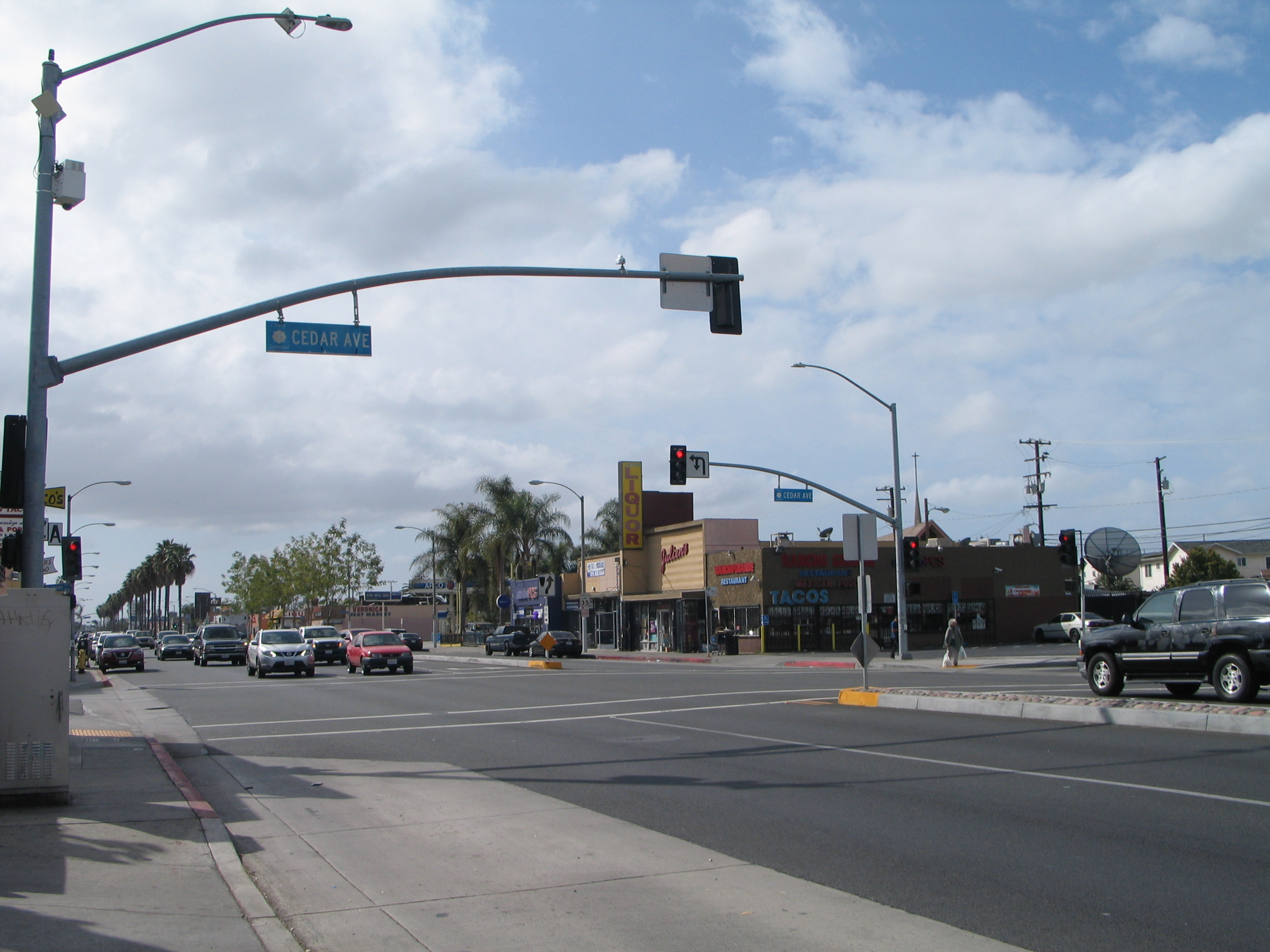 The crossing of Long Beach Boulevard and Cedar Avenue in Lynwood, California